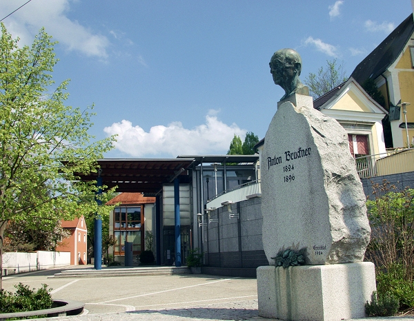 Anton Bruckner memorial in front of ABC Ansfelden